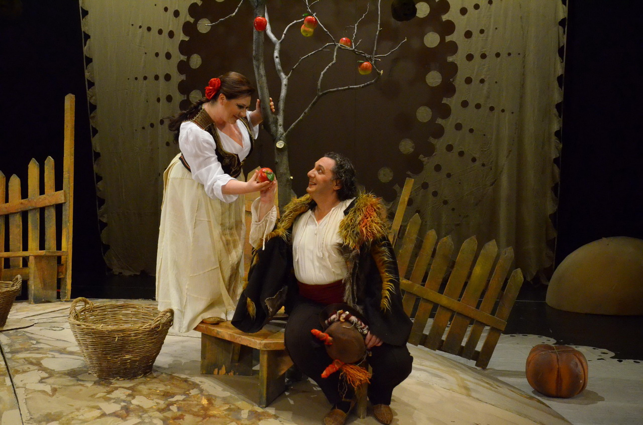 "Ero the Joker" (literally: "Ero from the other world"), a comic opera in three acts by Jakov Gotovac, with a libretto by Milan Begović based on a folk tale. Opera of the SNT, Novi Sad, 2013/14; Laura Pavlović, Miljenko Đuran Srpski (latinica): „Ero s onoga svijeta”, komična opera u tri čina, komponovao Jakov Gotovac; libreto napisao Milan Begović; Opera SNP-a, Novi Sad 2013/14; Laura Pavlović, Miljenko Đuran Српски (ћирилица): „Еро с онога свијета“, комична опера у три чина, компоновао Јаков Готовац; либрето написао Милан Беговић; Опера СНП-а, Нови Сад 2013/14; Лаура Павловић, Миљенко Ђуран